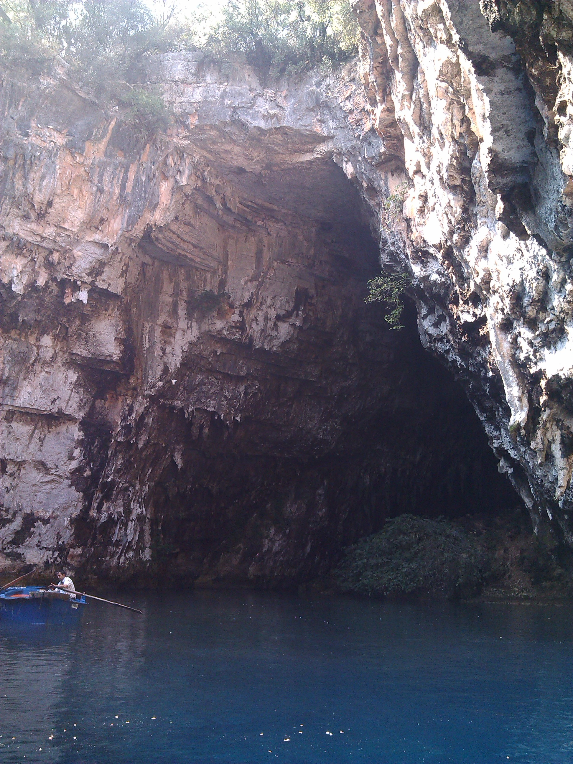 Picture of the covered part of the cave